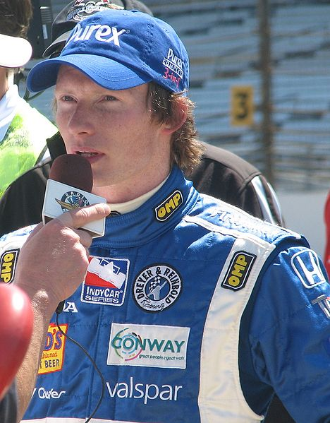 Mike Conway at the Indianapolis Motor Speedway for Bump Day for the 2009 Indianapolis 500.